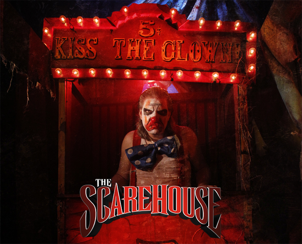 Creepo appeared in The Forsaken haunt as well as Creepo's Christmas in 3D